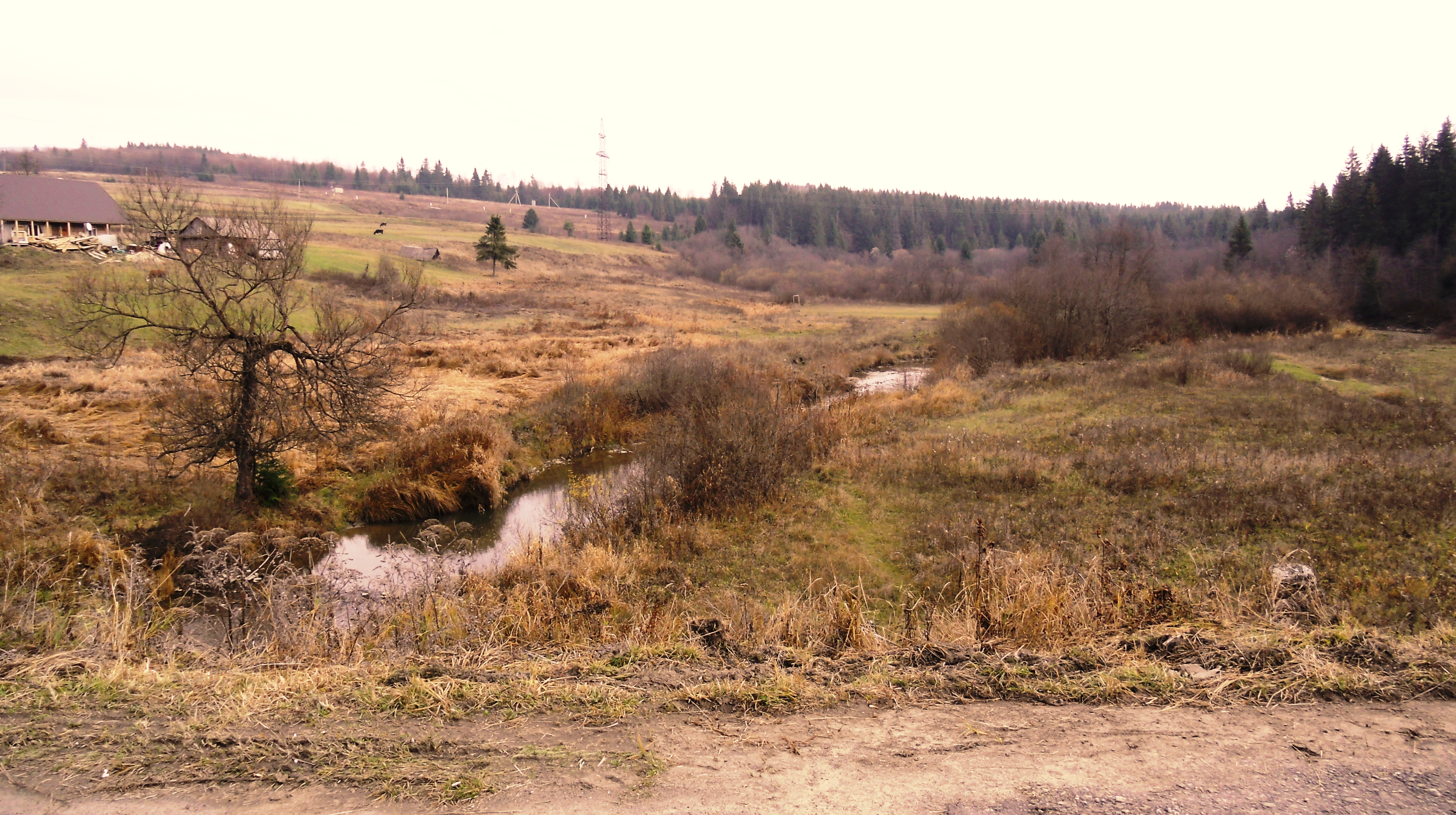 Stryj River near the village of Klymets. Skole district in the Lviv Oblast (province) of Ukraine.